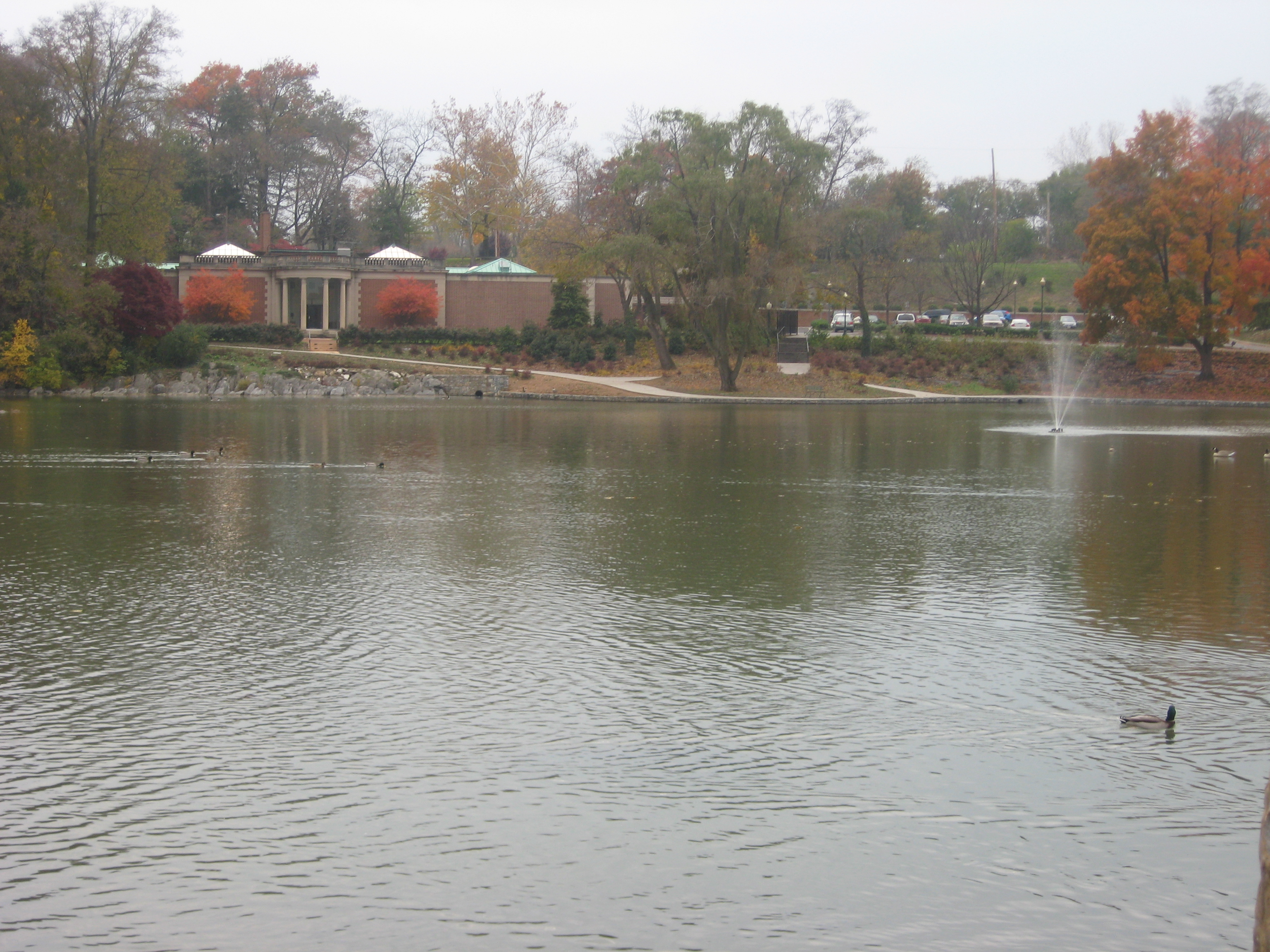 Hagerstown City Park Lower Lake and Washington County Museum of Fine Arts in Hagerstown, Maryland, United States